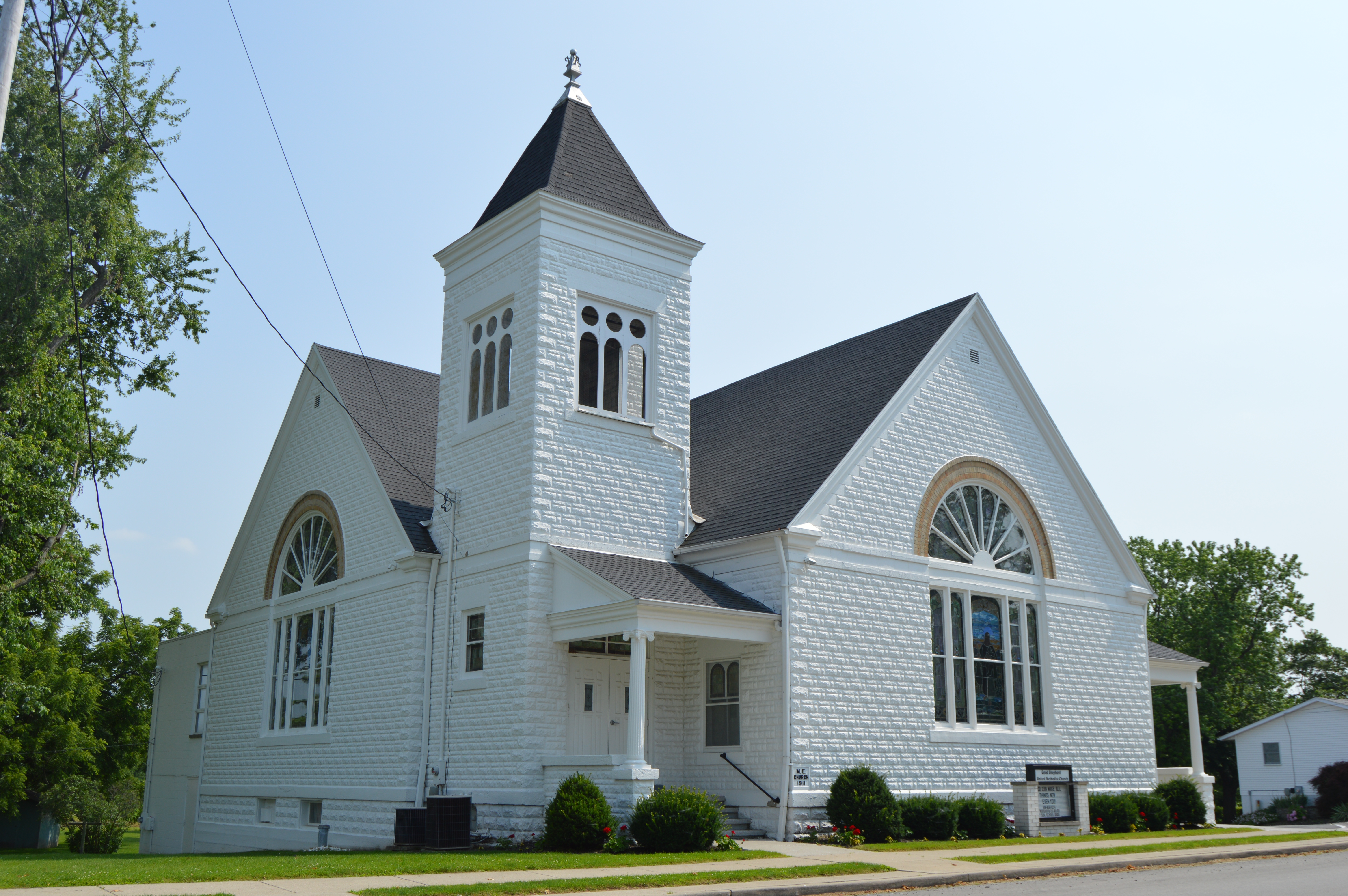 Front and eastern side of the Good Shepherd United Methodist Church, located at 119 W. Main Street (State Routes 12/235) in Benton Ridge, Ohio, United States.